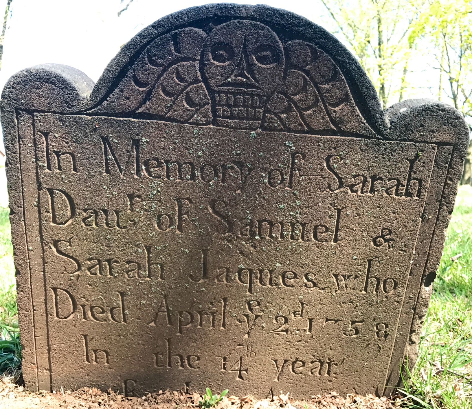 1758 tombstone in churchyard of Trinity Episcopal Church in Woodbridge Township, New Jersey.